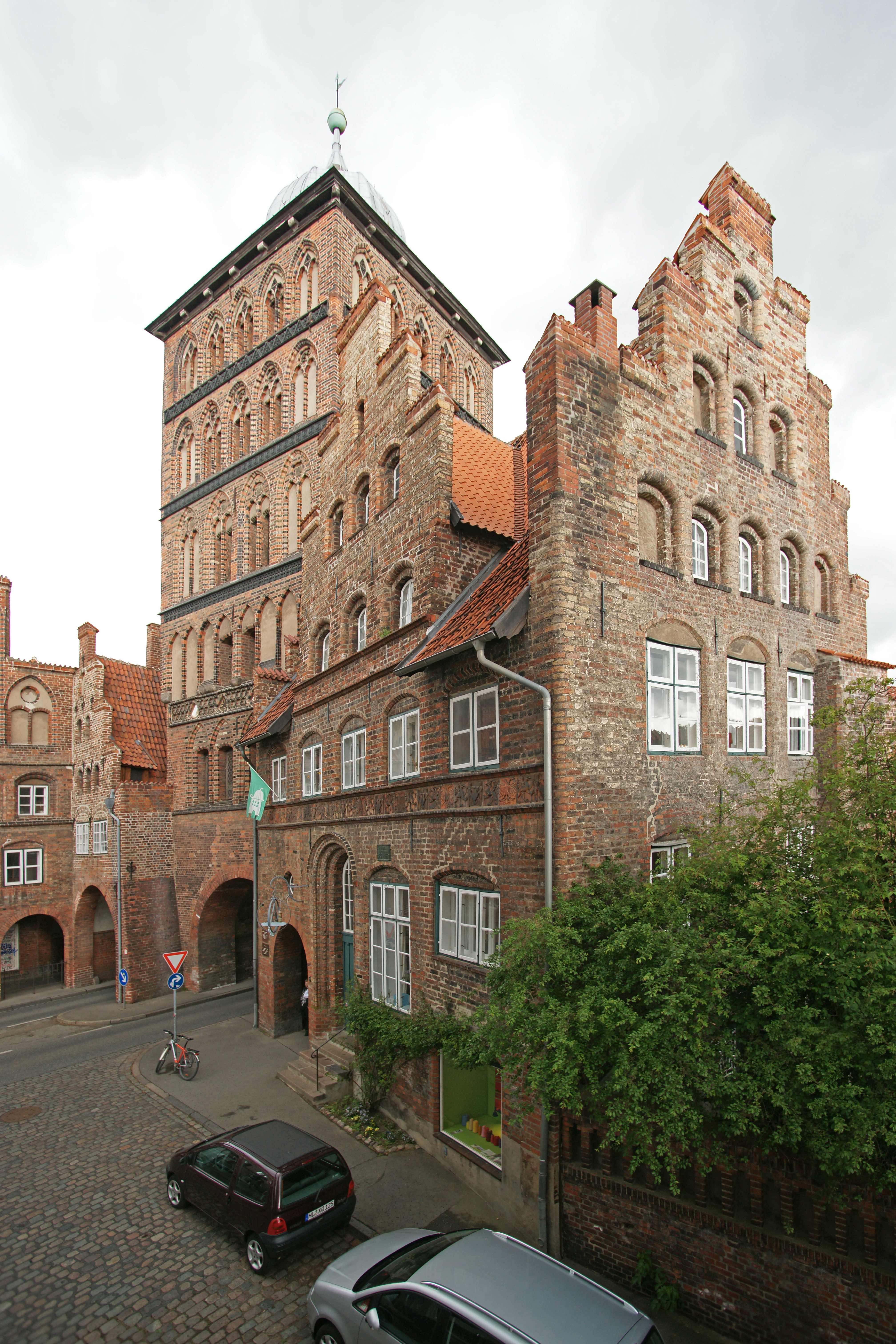 Castle Gate Luebeck - inner side (South) and Toll-House